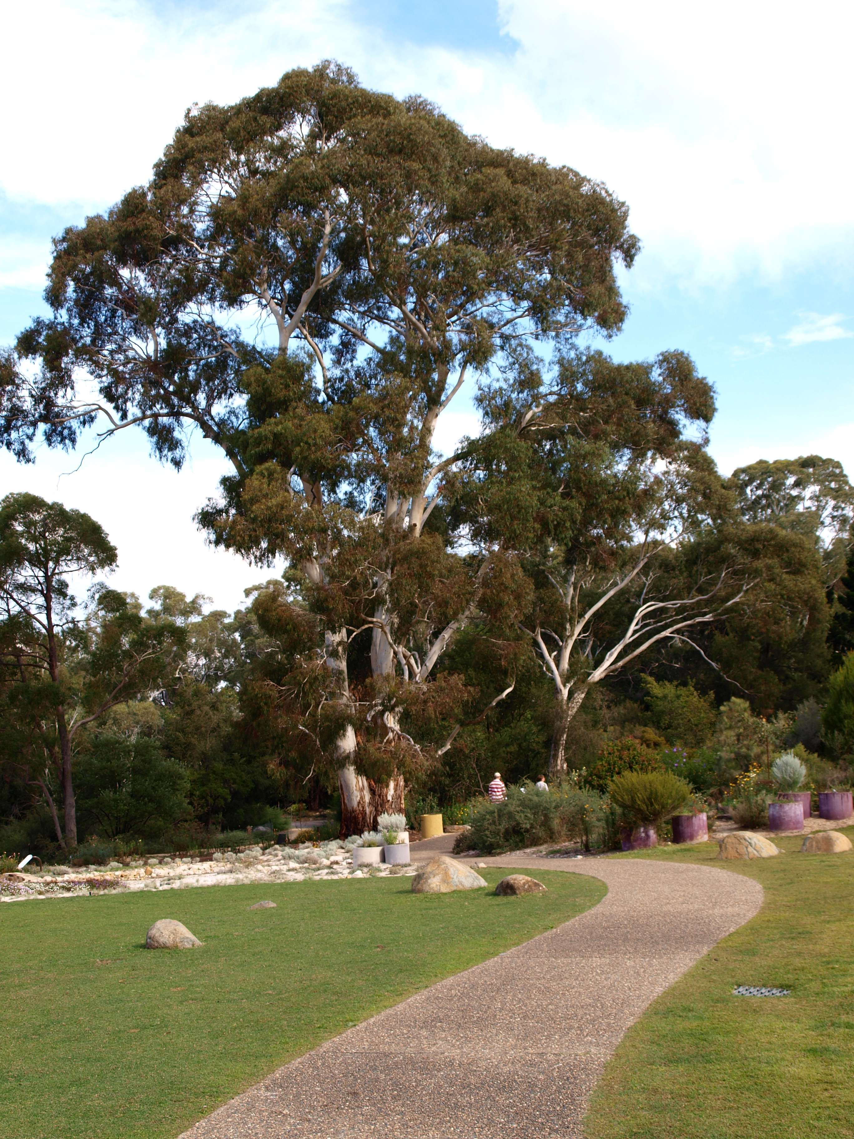 Australian National Botanic Gardens